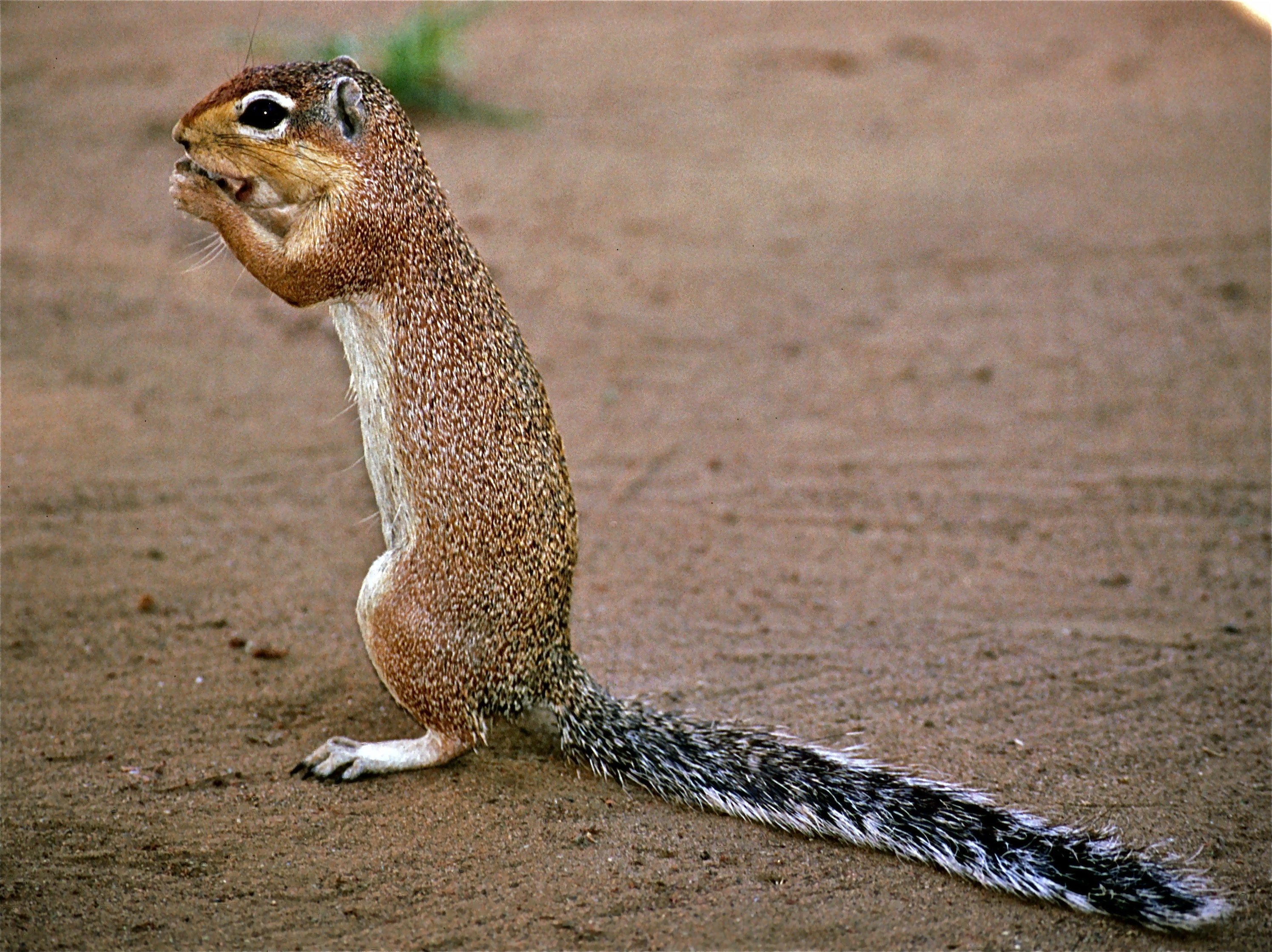 Samburu National Reserve, KENYA Scanned slide from 2004